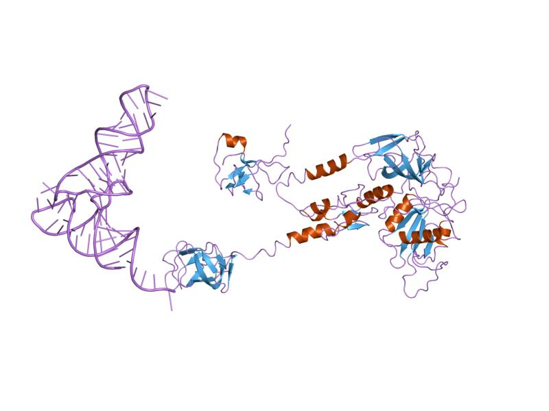 Cartoon representation of the molecular structure of protein registered with 1zo1 code.